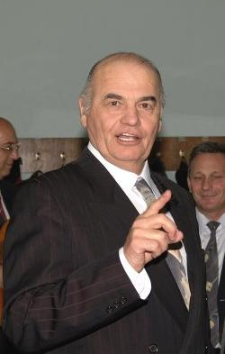 Zvonko Bogdan in Pljevlja at the Youth festival of string instruments (Omladinski festival žičanih instrumenata), 2006